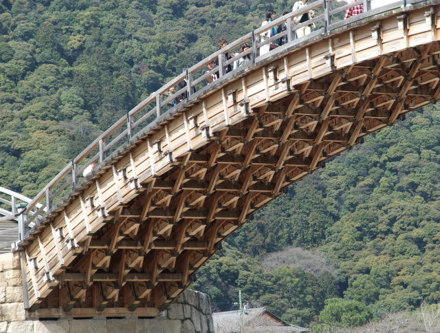 The Under Side of Kintai Bridge at Iwakuni in Yamaguchi prefecture, Japan.